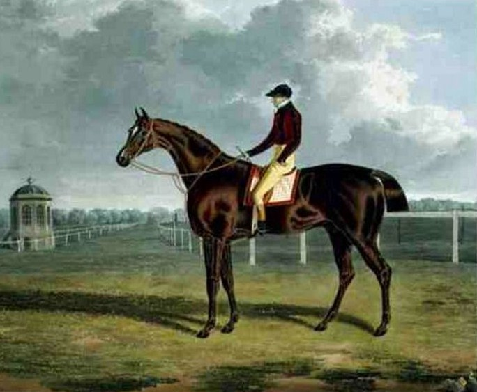 Painting of the British racehorse St Patrick (ca. 1820) by John Frederick Herring sr. Artist dead for 147 years.